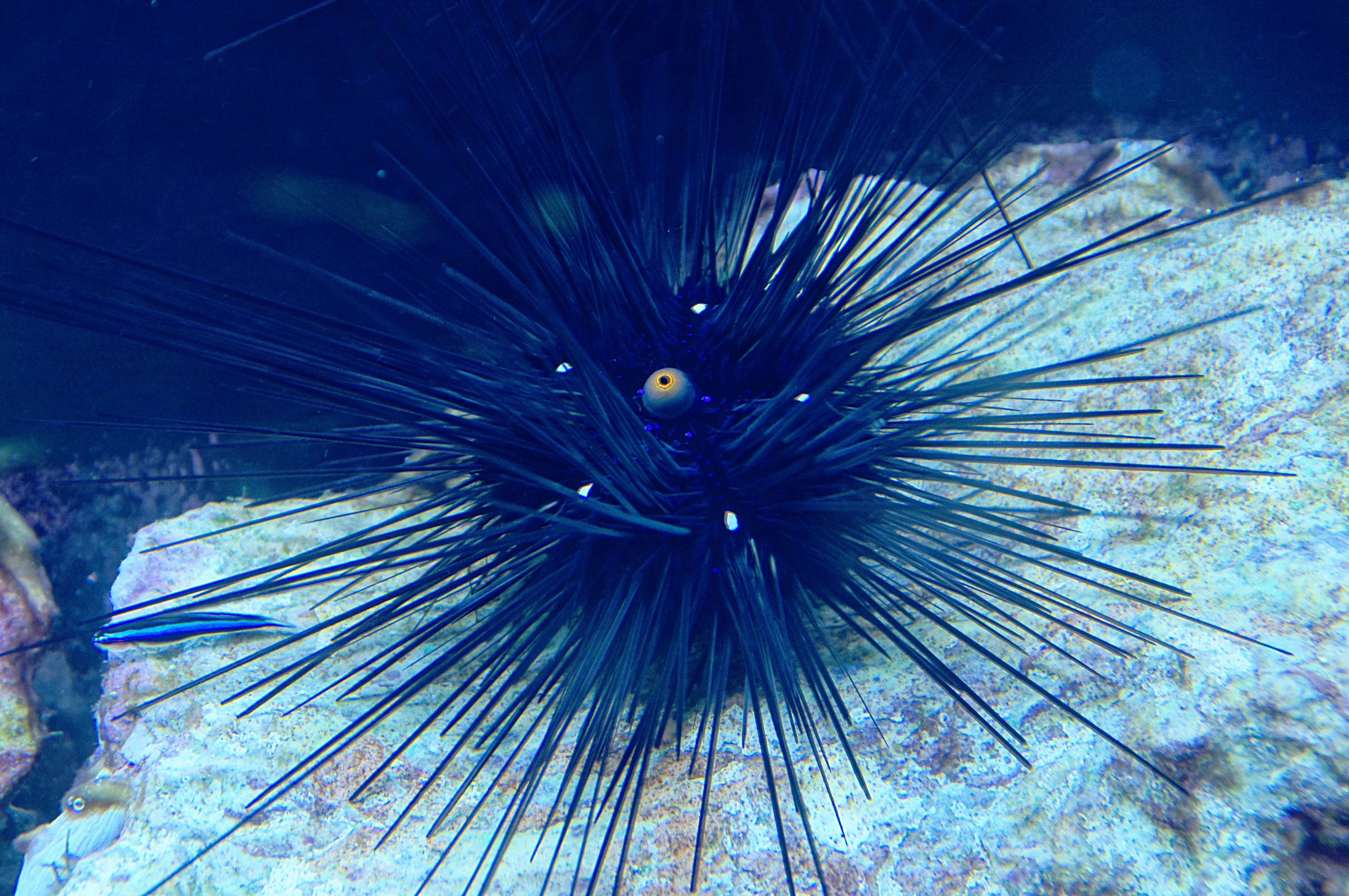 Sea urchin as a host for ectosymbiotic parasites